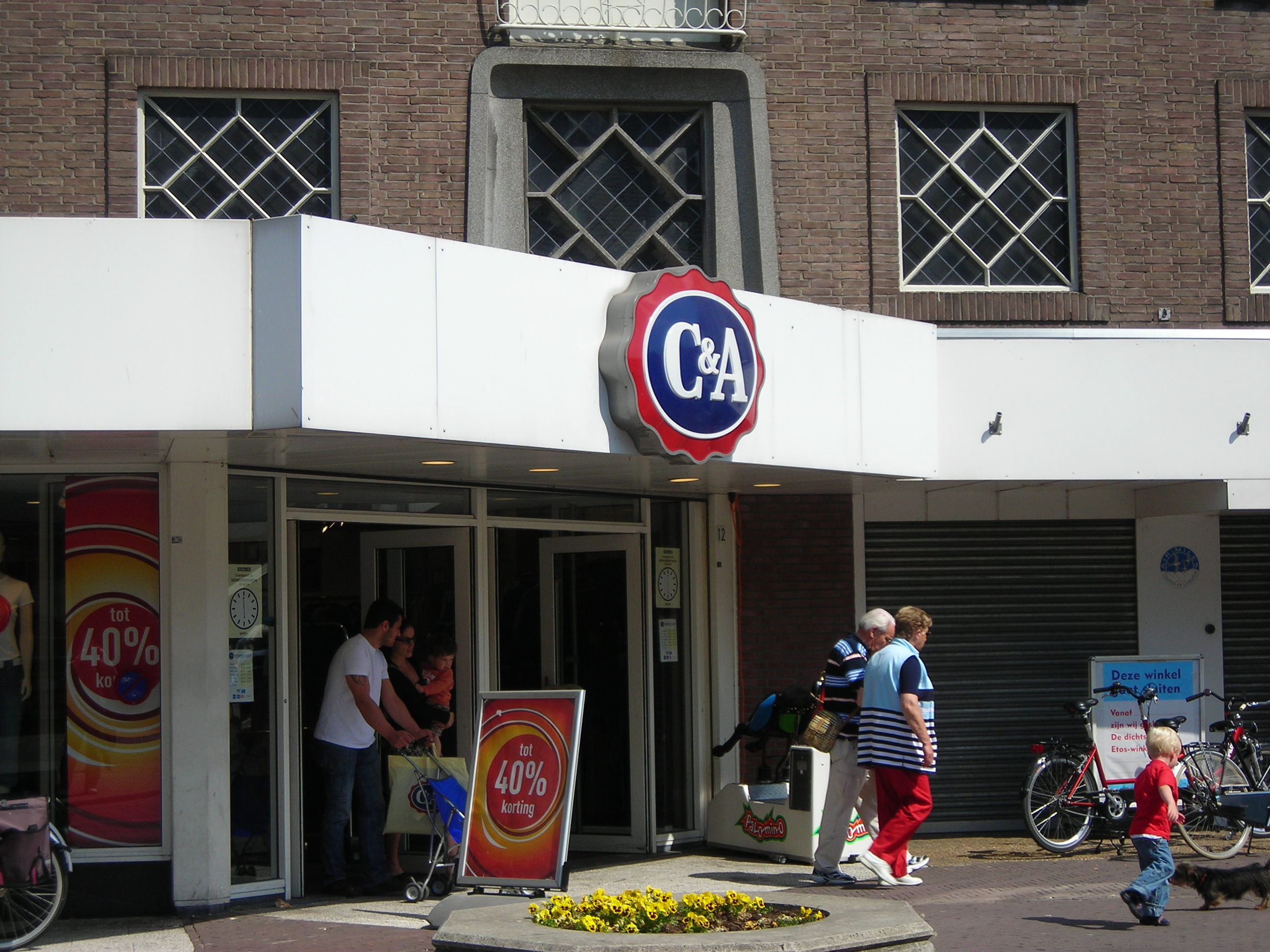 A C&A store in Zutphen